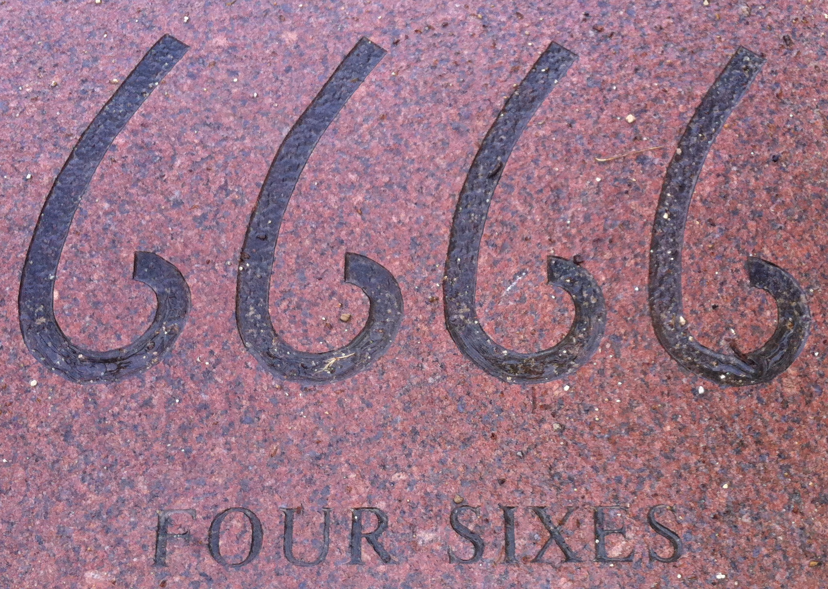 Brand of the 6666 Ranch, located in the sidewalk display of historic Texas brands, Pioneer Plaza in Dallas, Texas